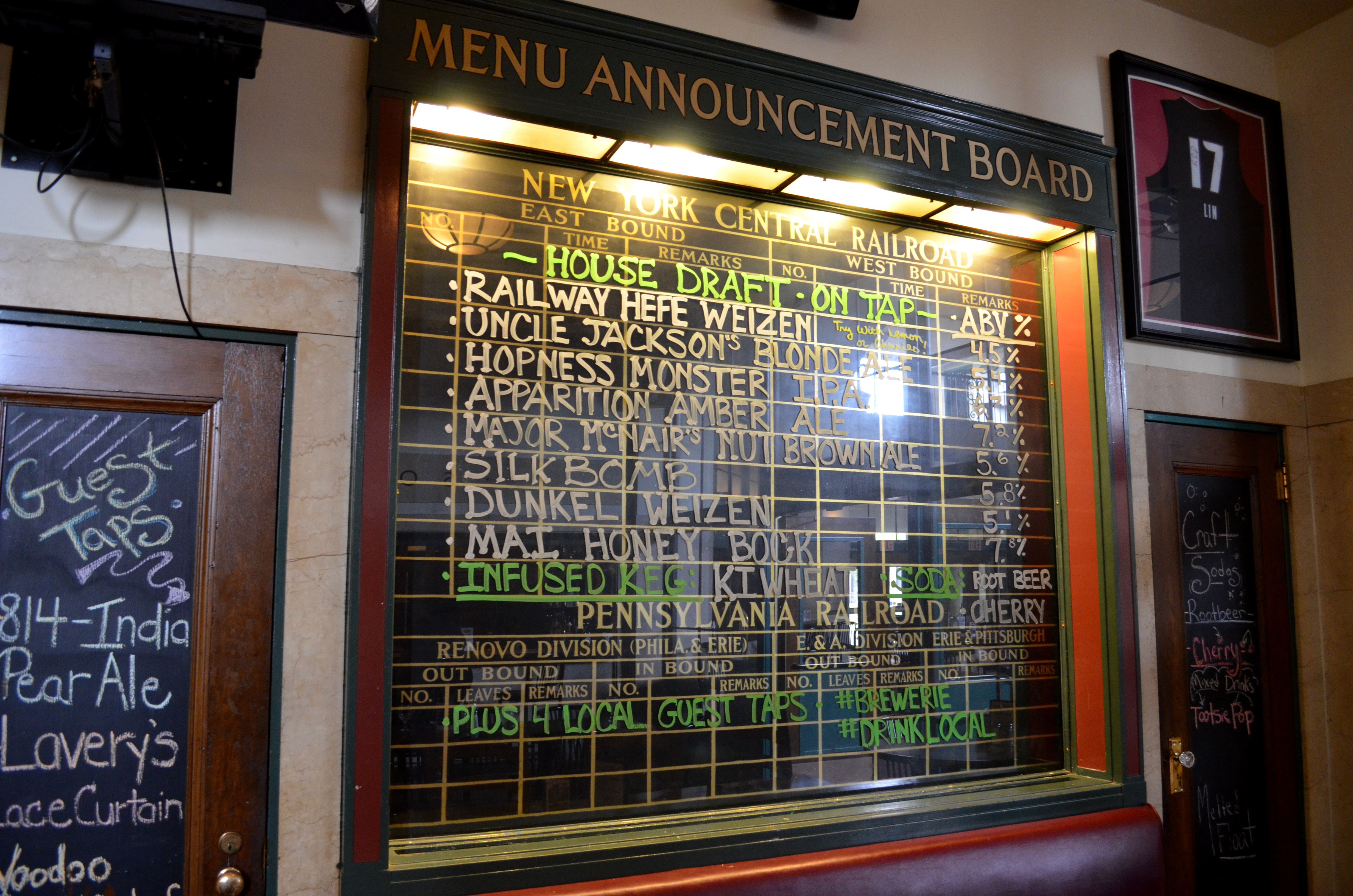 Beer menu for the Brewerie at Union Station in Erie, Pennsylvania, made from the former railroad timetable boards.